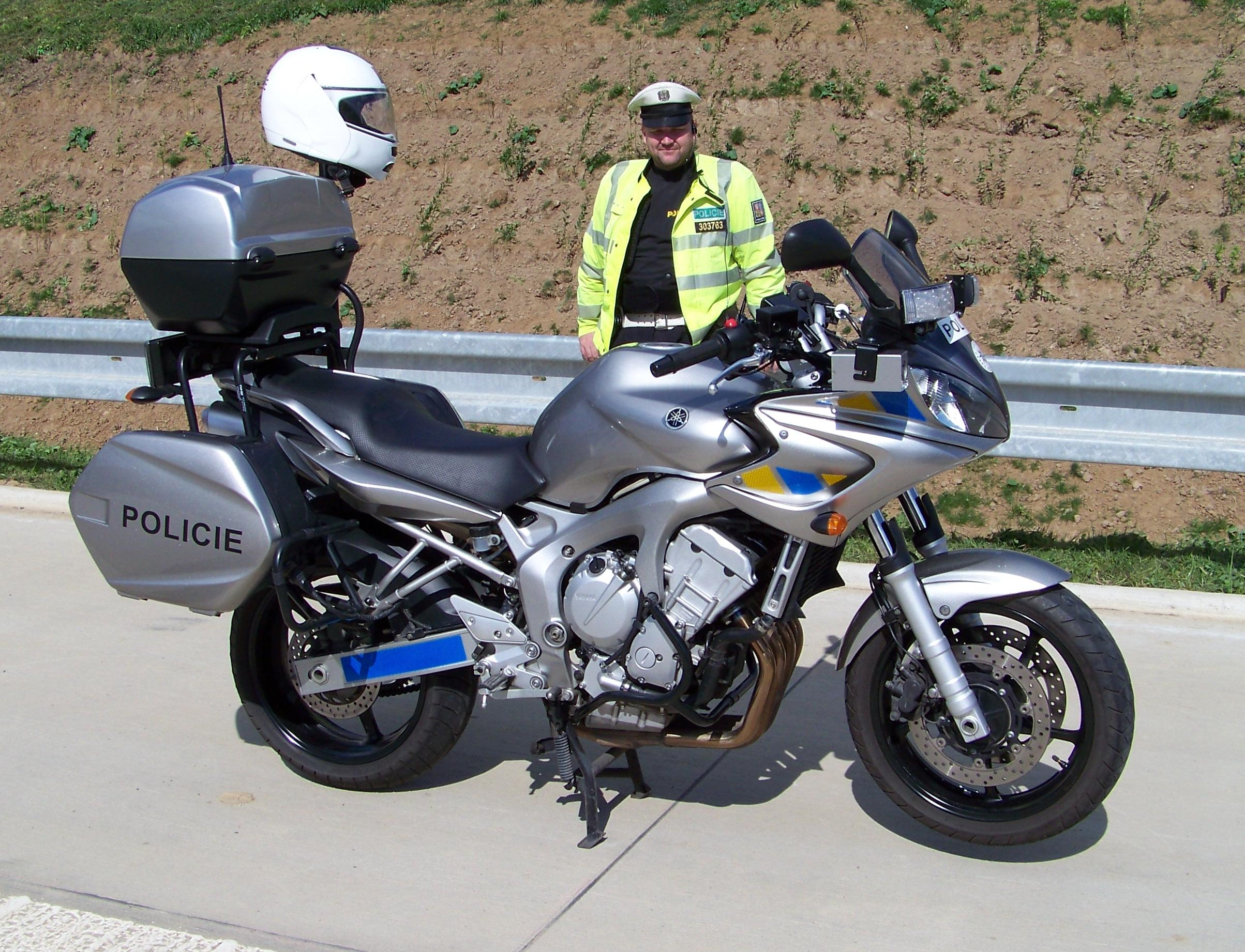 Prague, the Czech Republic. Open Doors Day of the new section of Prague Beltway. A police motorcycle.